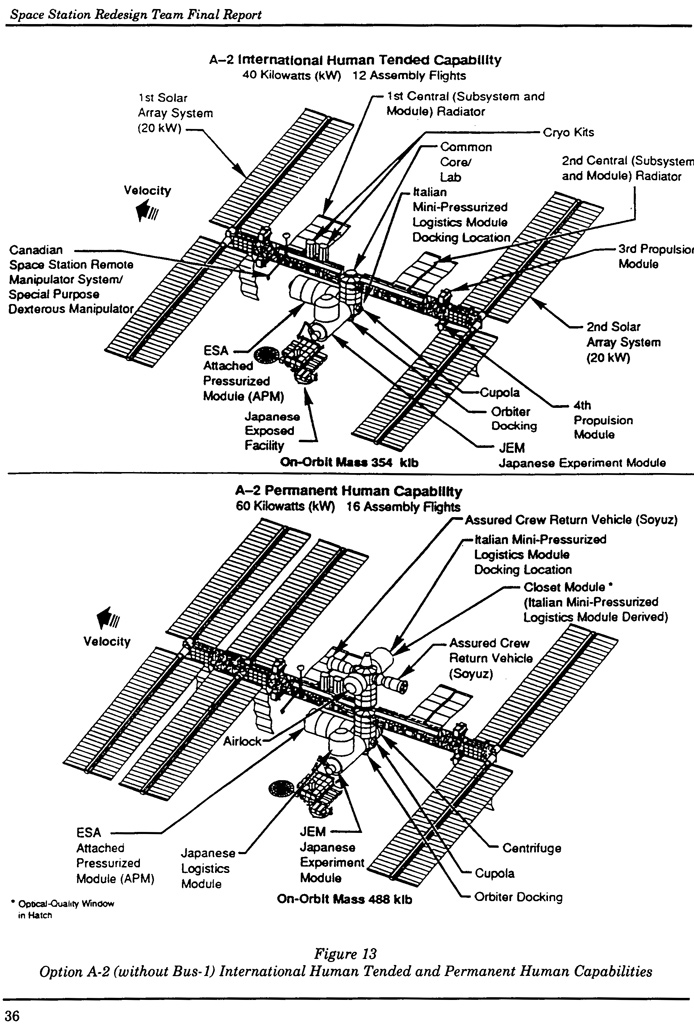 Taken from the pdf version of the 1993 final report, page 36.